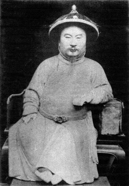 Zheng Yongxi, the first Taiwanese Jinshi in the Qing Dynasty.